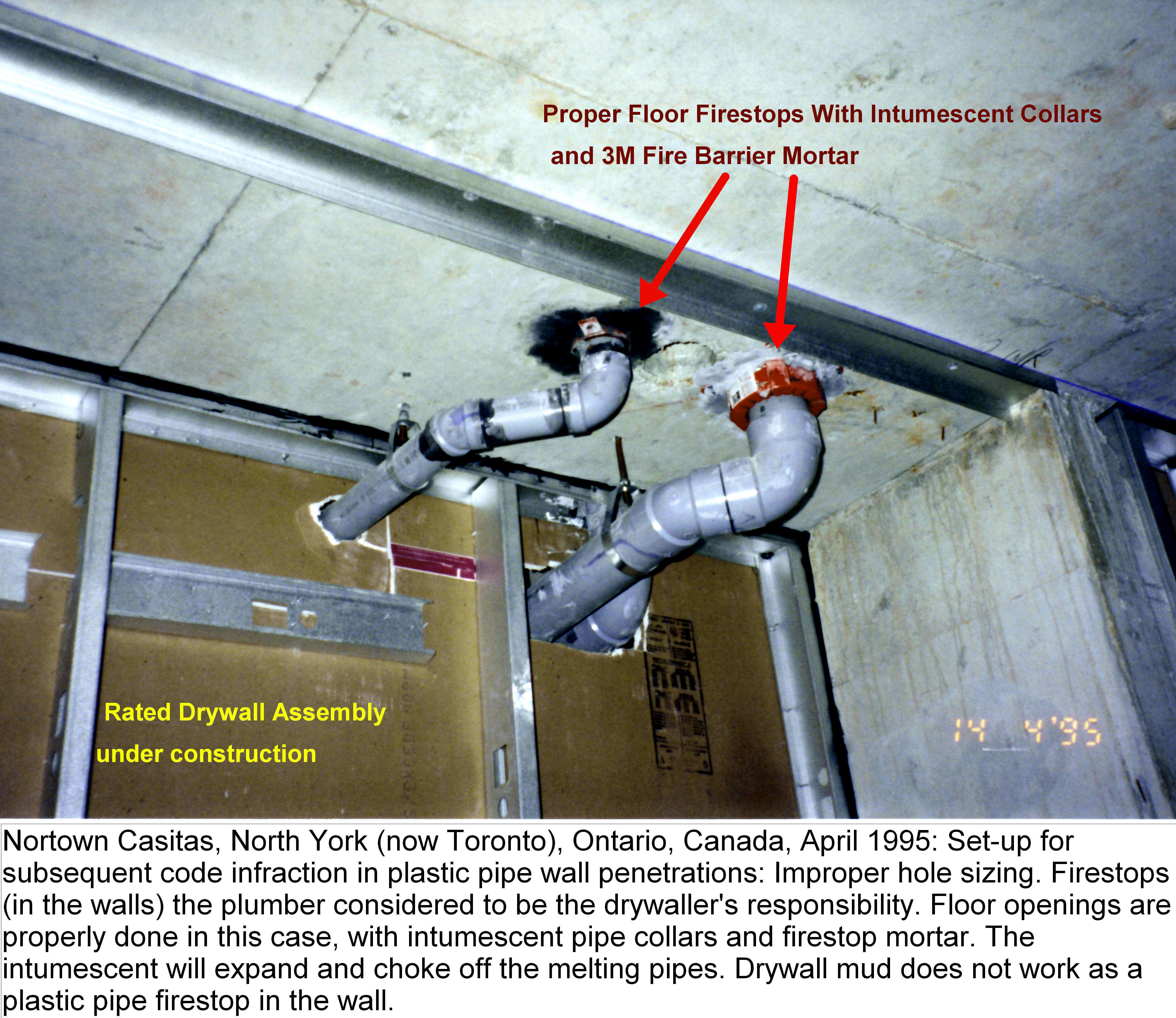 Set-up for subsequent code infraction: When firestops are done by separate trades, instead of a speciality firestop subcontractor who does all firestopping on site, mechanical, electrical, structural and architectural, a popular cost-cutting measure is for mechanical and electrical trades to absolve themselves of sealing wall openings, particularly in drywall, by claiming that they have hung their pipes and wires BEFORE the drywall was up and that, therefore, the drywaller is responsible. The drywaller has no such instructions in his specification and simply butts up to the penetrants and uses common drywall mud to close the gap, which is not an approved firestop. With plastic piping, which melts and burns quickly in a fire, this is particularly dangerous. When the subtrades don't allow enough money for this pre-tender, on the basis of such "reasoning", a budgetary battle or code infractions, or both are not uncommon outcomes.